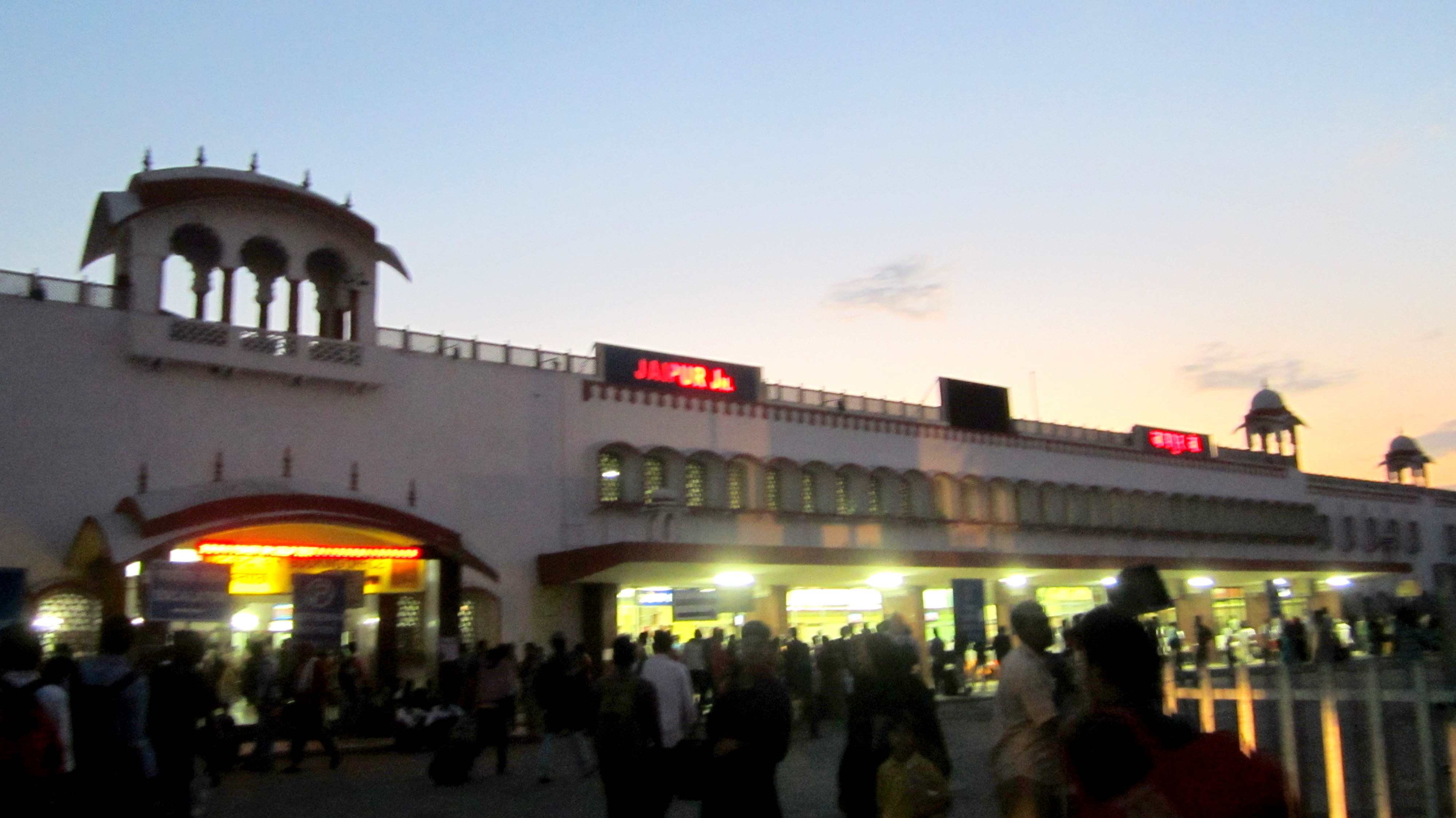 Jaipur junction railway station at dusk